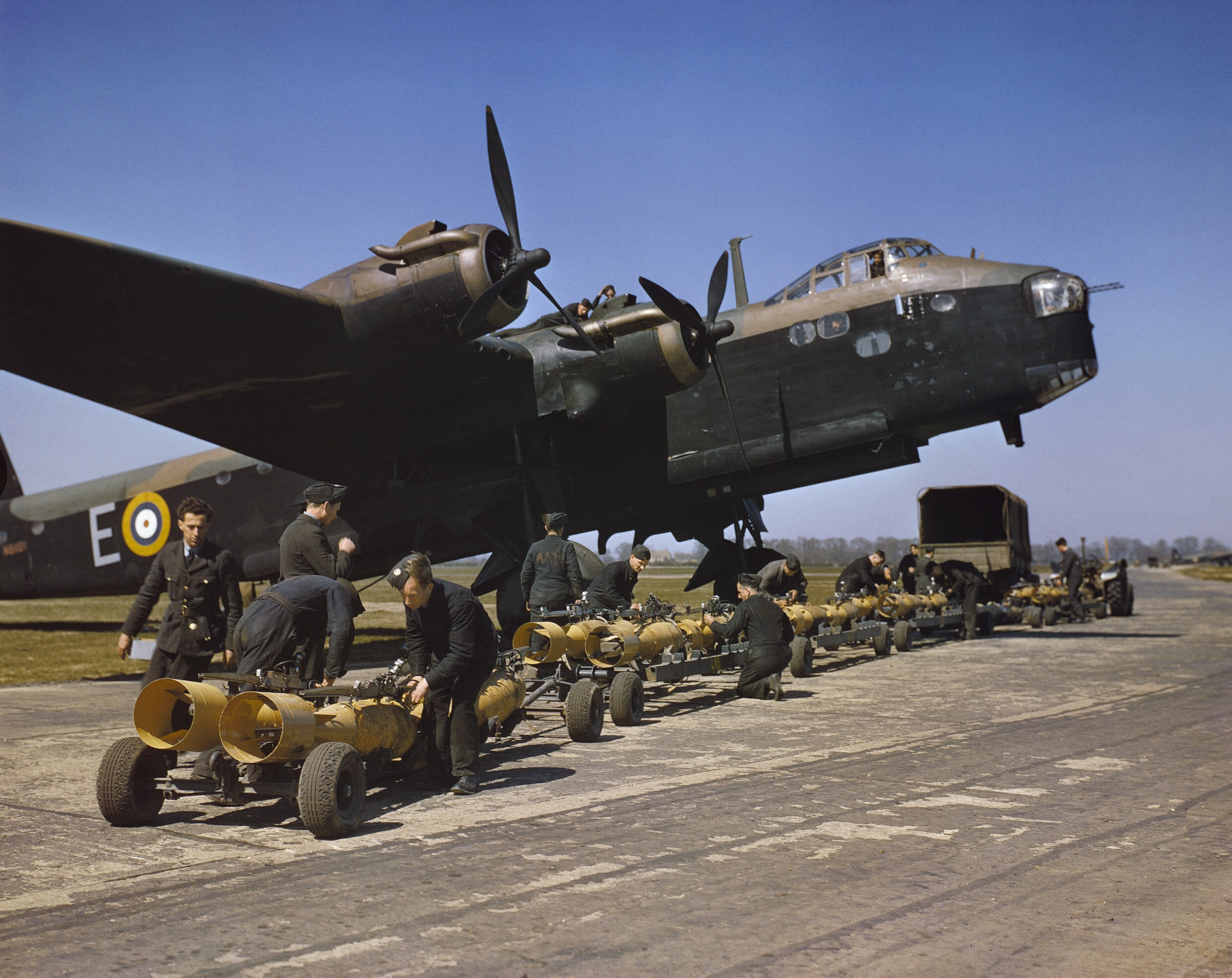 The Royal Air Force in Britain, April 1942 Royal Air Force armourers check over the sixteen 250lb bombs before they are loaded into Short Stirling bomber N6101 of No 1651 Heavy Conversion Unit at Waterbeach, Cambridgeshire. (N6101 was one of the first built by Short and Harland at Belfast).